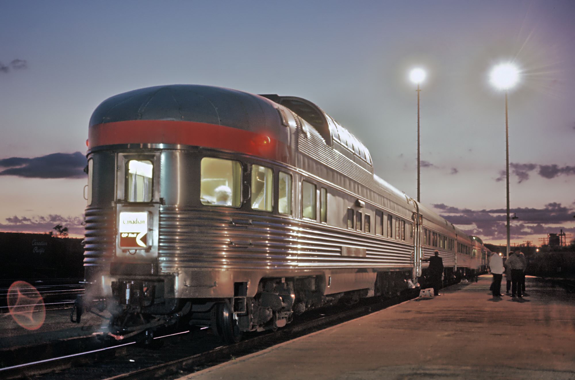 Canadian Pacific Train 1, The Canadian, North Bay, Ont., May 30, 1971. Enjoy Roger's work!